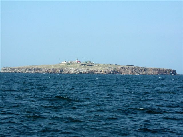 A view of Snake Island